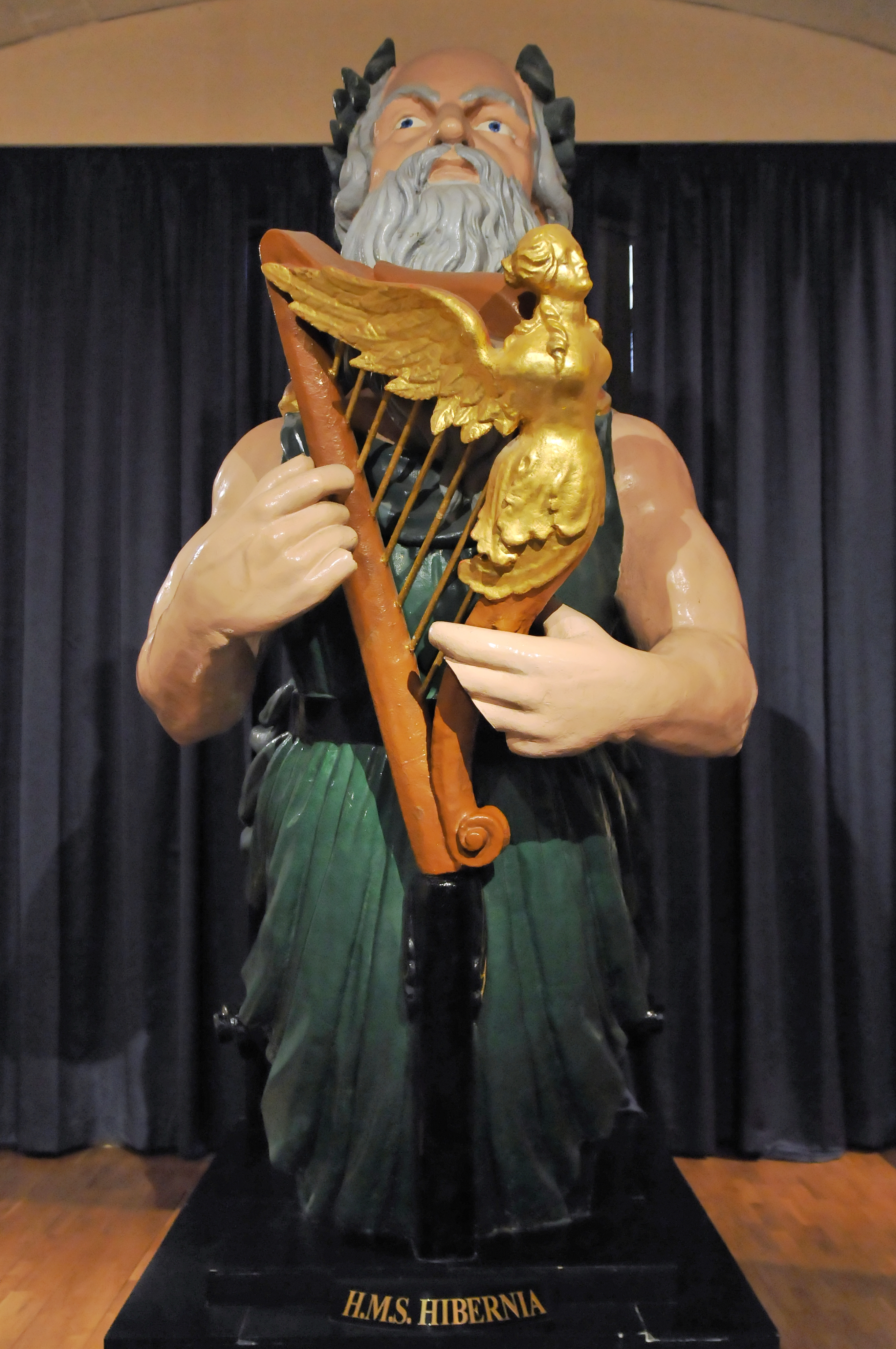 Figurehead of the HMS Hibernia (1804).